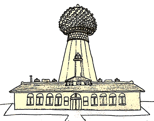 Artistic representation of the finished Wardenclyffe Tower.